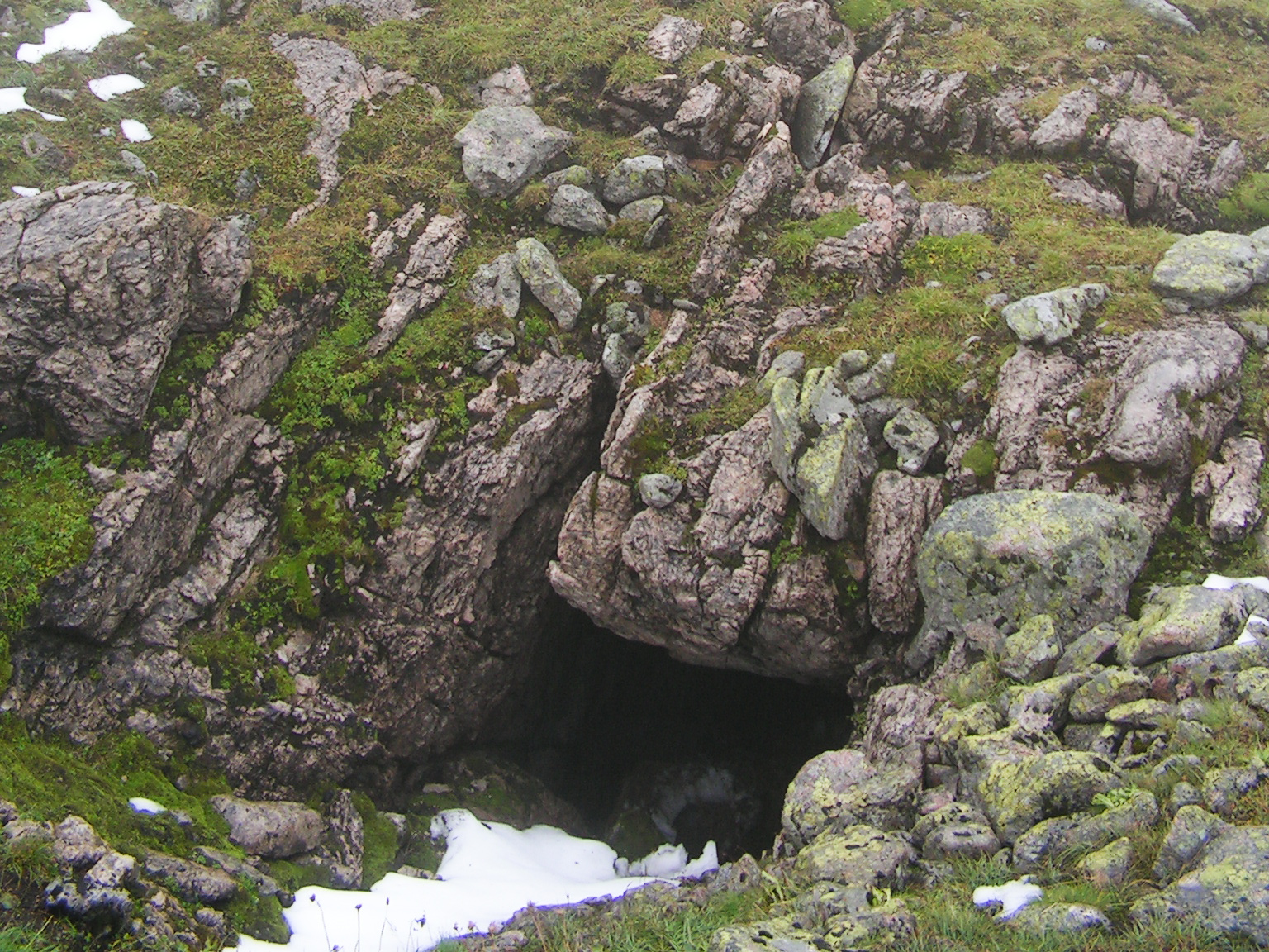 Snežná jaskyňa in Široká dolina.